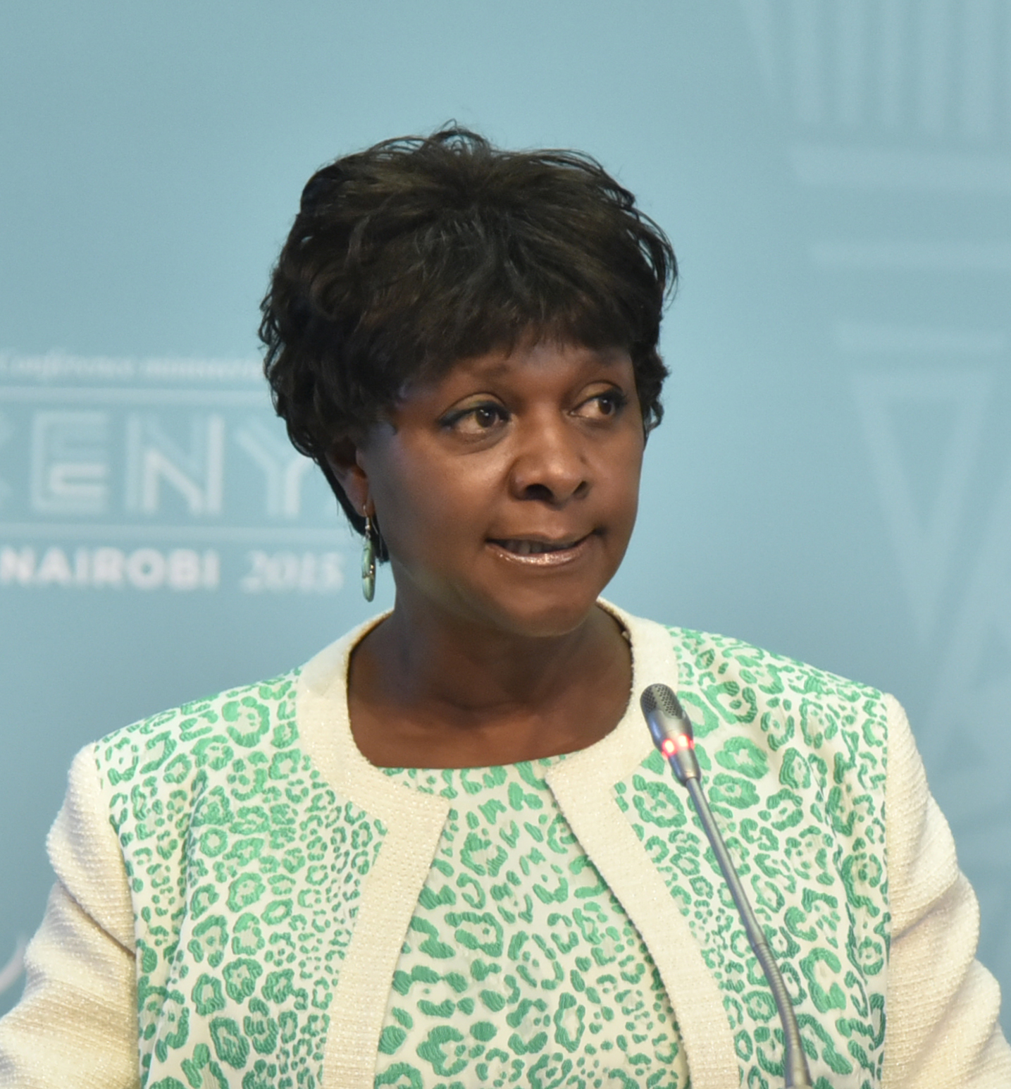 Day 3 of the 10th WTO Ministerial Conference, Nairobi, 17 December 2015. Photos may be reproduced provided attribution is given to the WTO and the WTO is informed. Photos: © WTO. Courtesy of Admedia Communication.